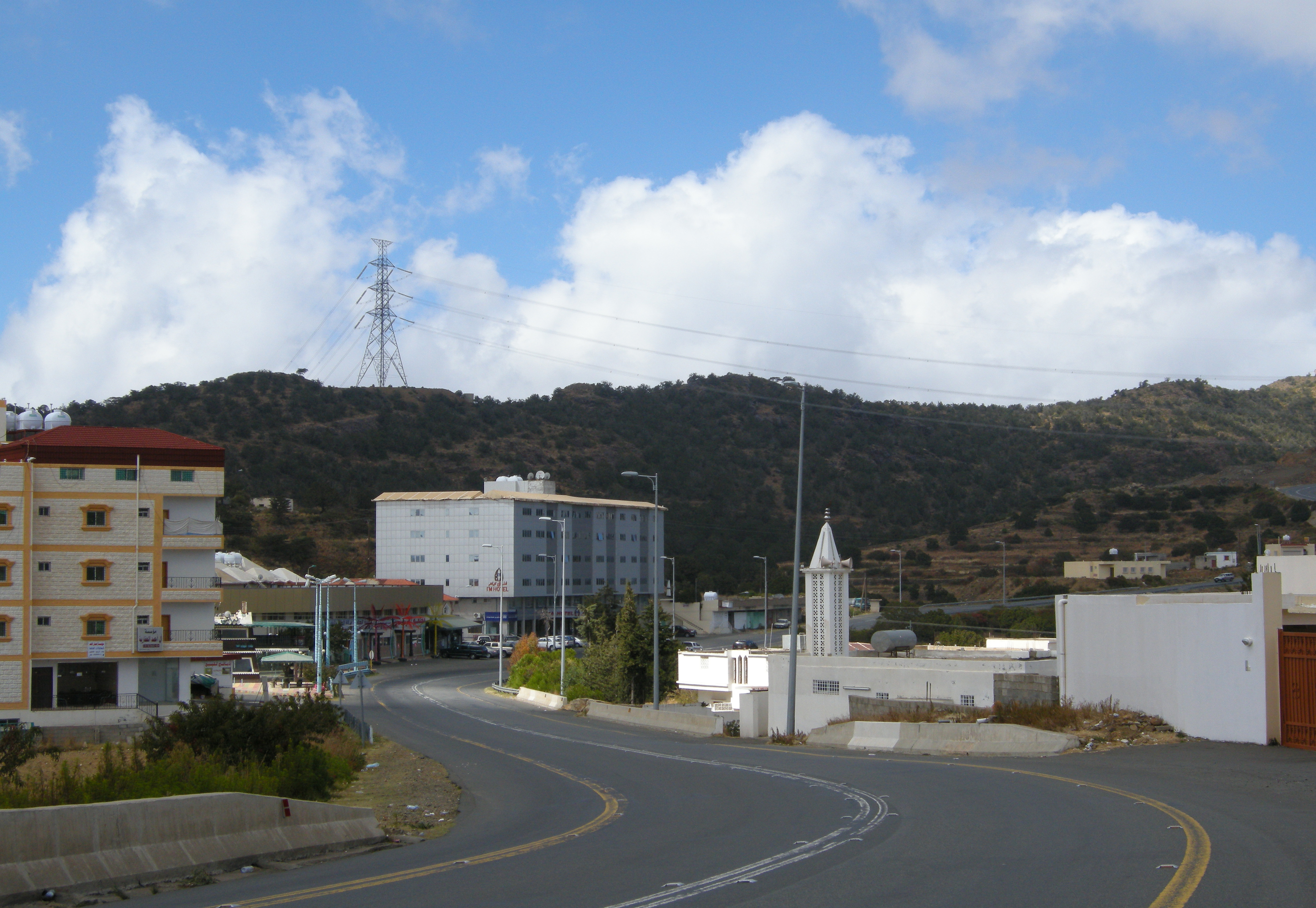 Abha, Saudi Arabia